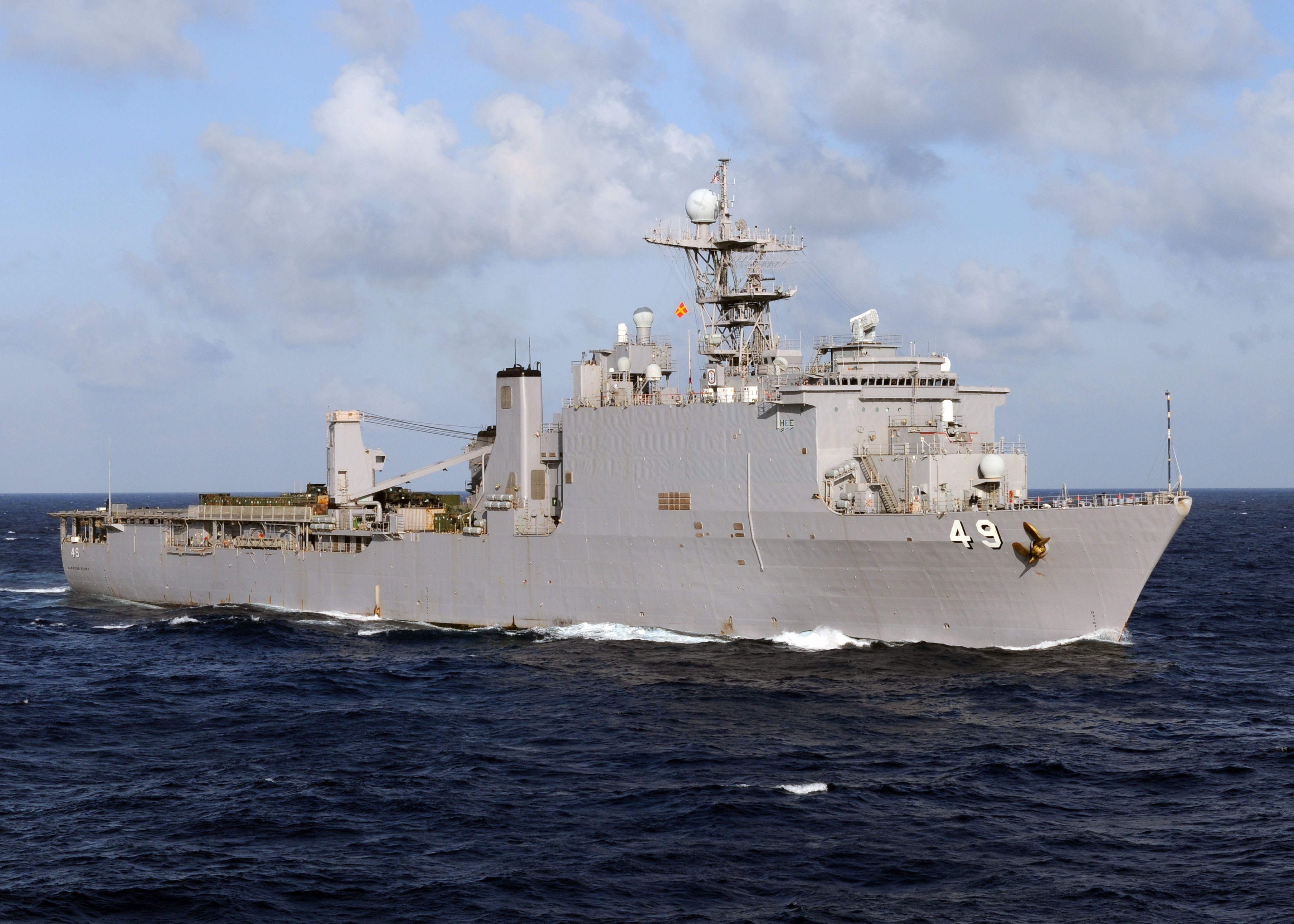 PACIFIC OCEAN (Jan. 29, 2010) The amphibious dock landing ship USS Harpers Ferry (LSD-49) prepares for an underway replenishment with the Military Sealift Command fleet replenishment oiler USNS Tippecanoe (T-AO-199). Harpers Ferry is conducting a spring patrol as part of the Essex Amphibious Ready Group. (U.S. Navy photo by Mass Communication Specialist 3rd Class Casey H. Kyhl/Released)